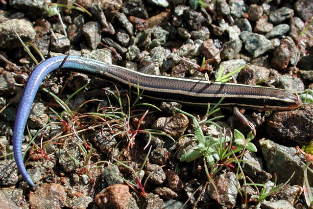 Eumeces skiltonianus from northern California.